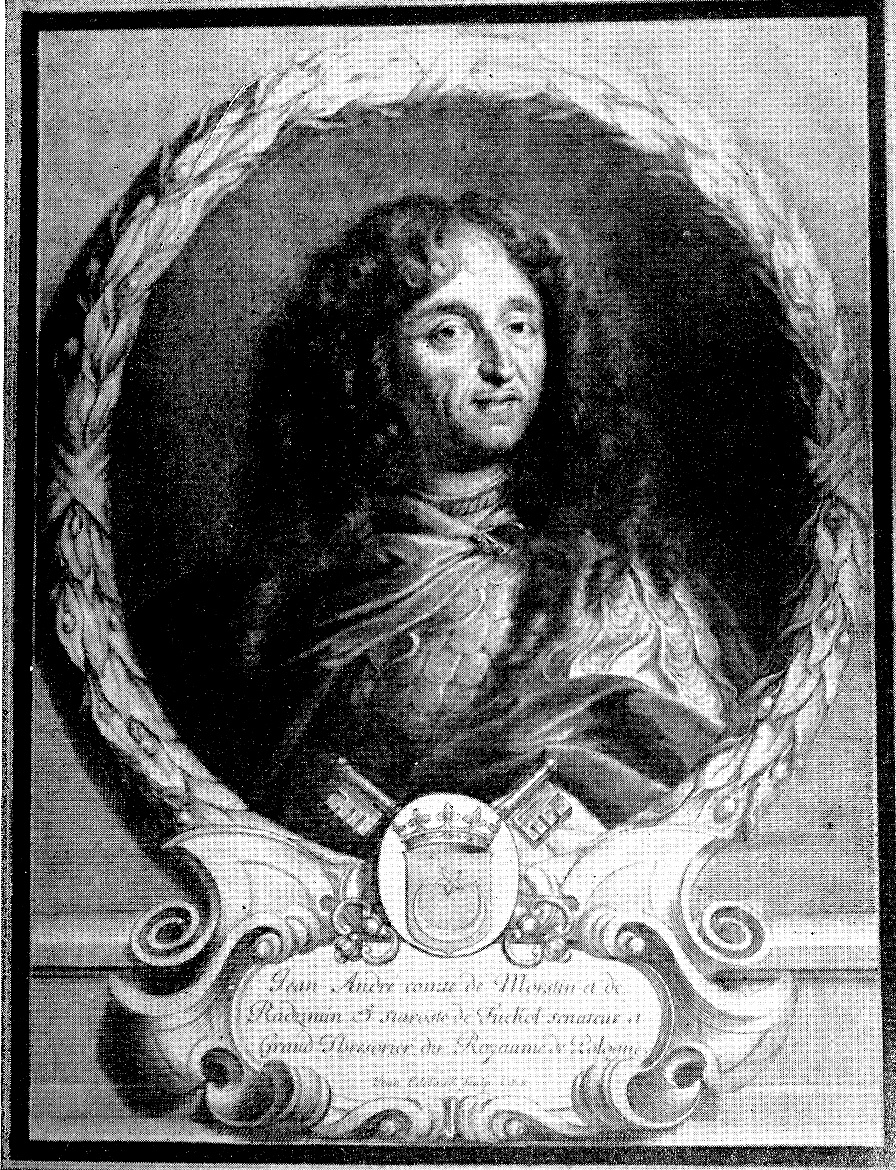 Jan Andrzej Morsztyn, Polish politician and poet in XVII century . Wide reproduced image of XVIIth century copperplate, f.ex: Paweł Jasienica "Rzeczpospolita Obojga Narodów" ("The Commonwealth of Both Nations"), vol 2. Warszawa 1968, many editions